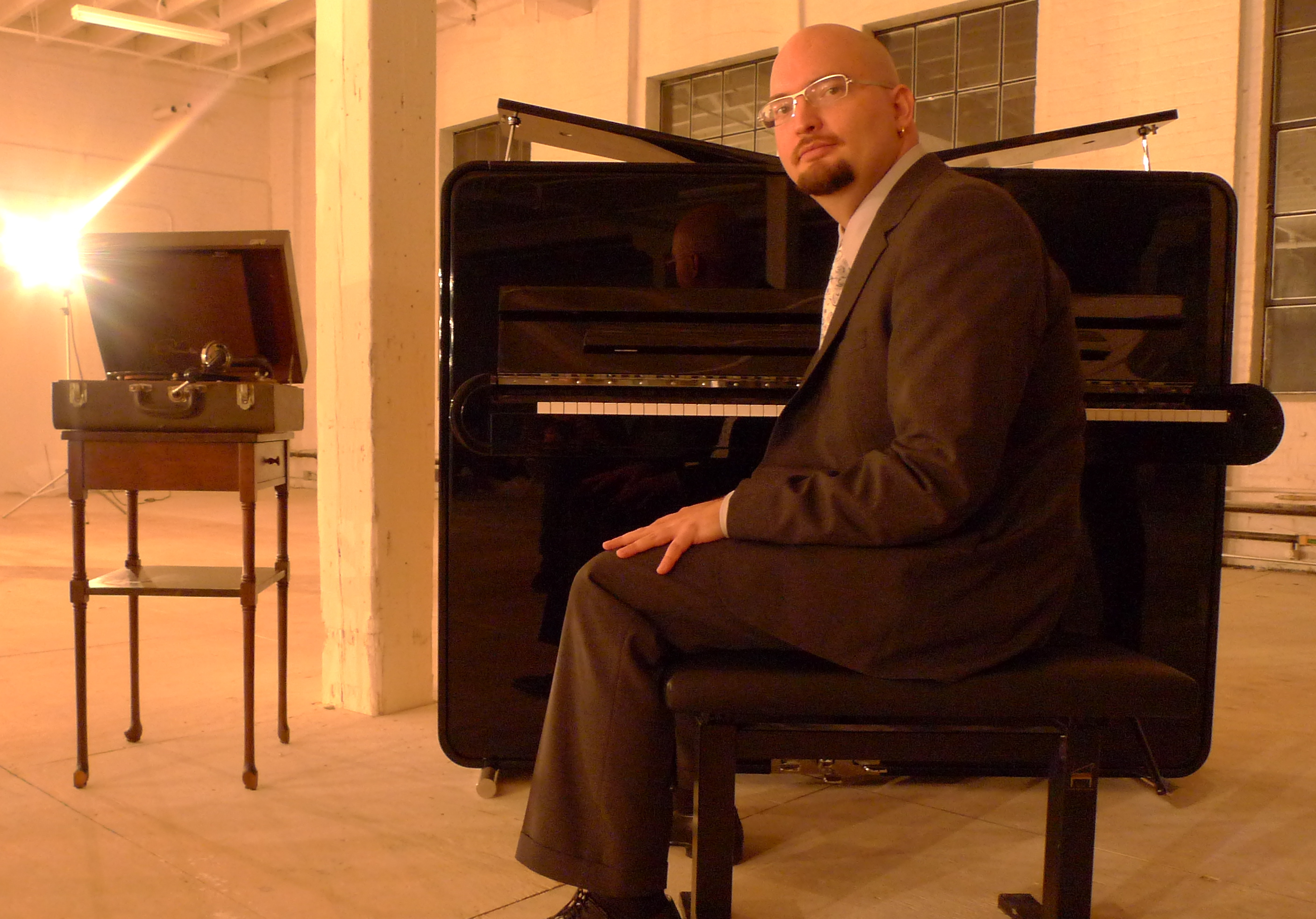 Photo of Ethan Iverson by Cristina Guadalupe